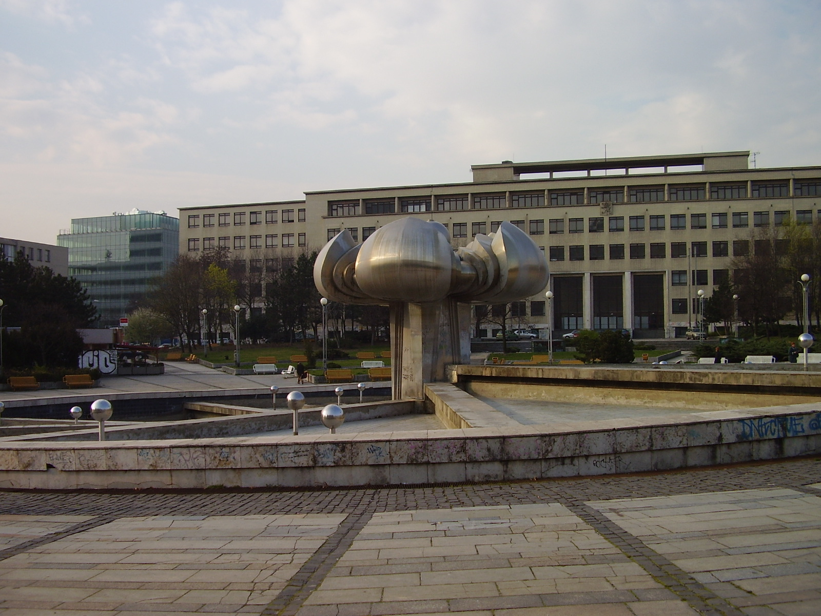 Bratislava city centre